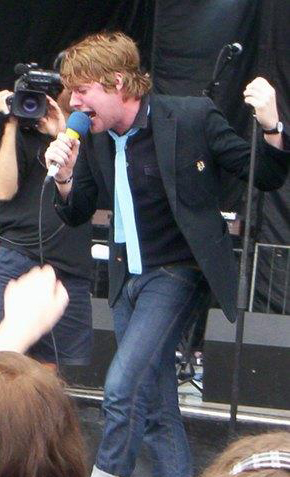 A photo of Ricky Wilson at Lollapalooza 2005 in Chicago, Illinois.